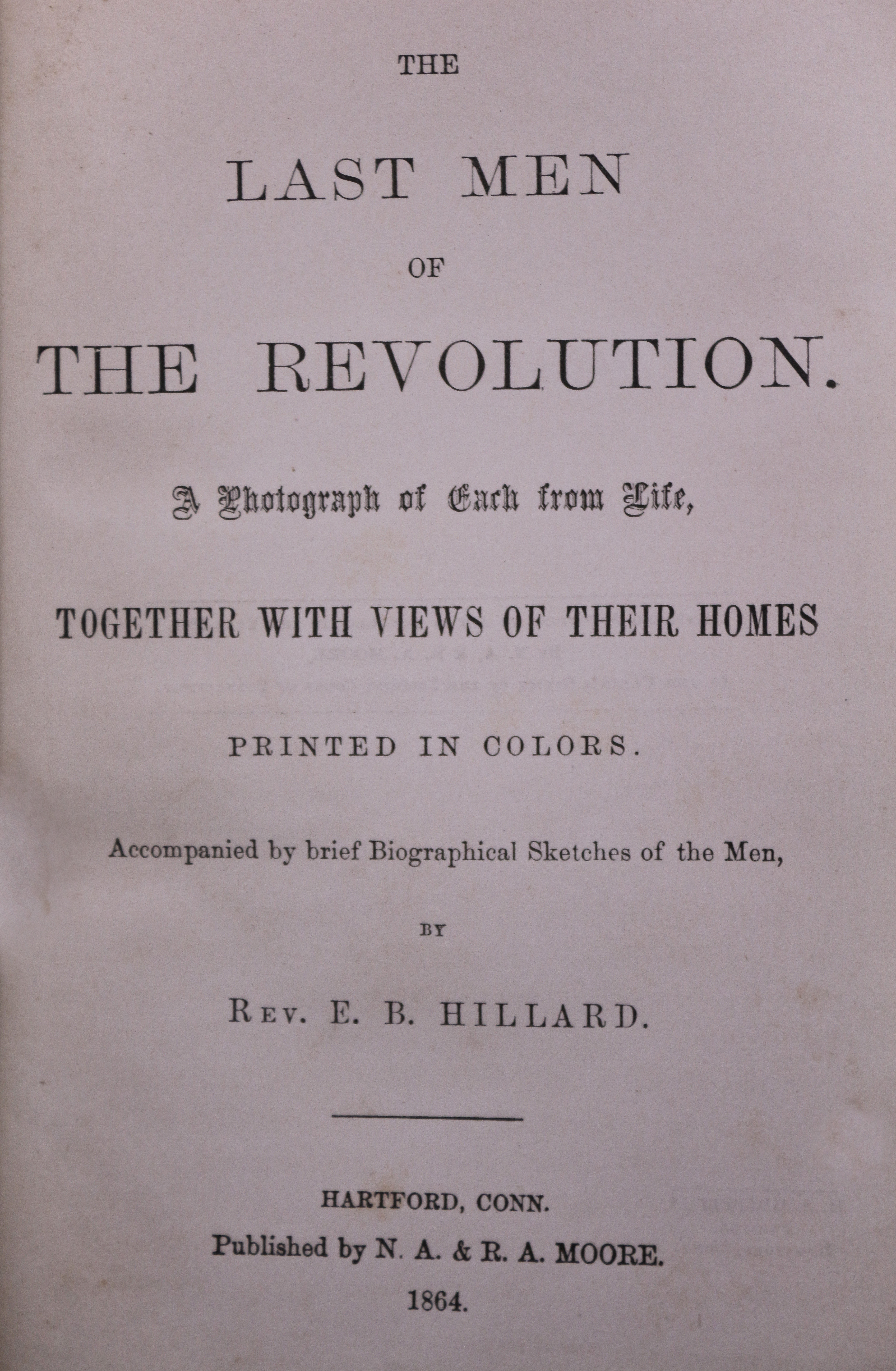 Title Page from The Last Men of the Revolution